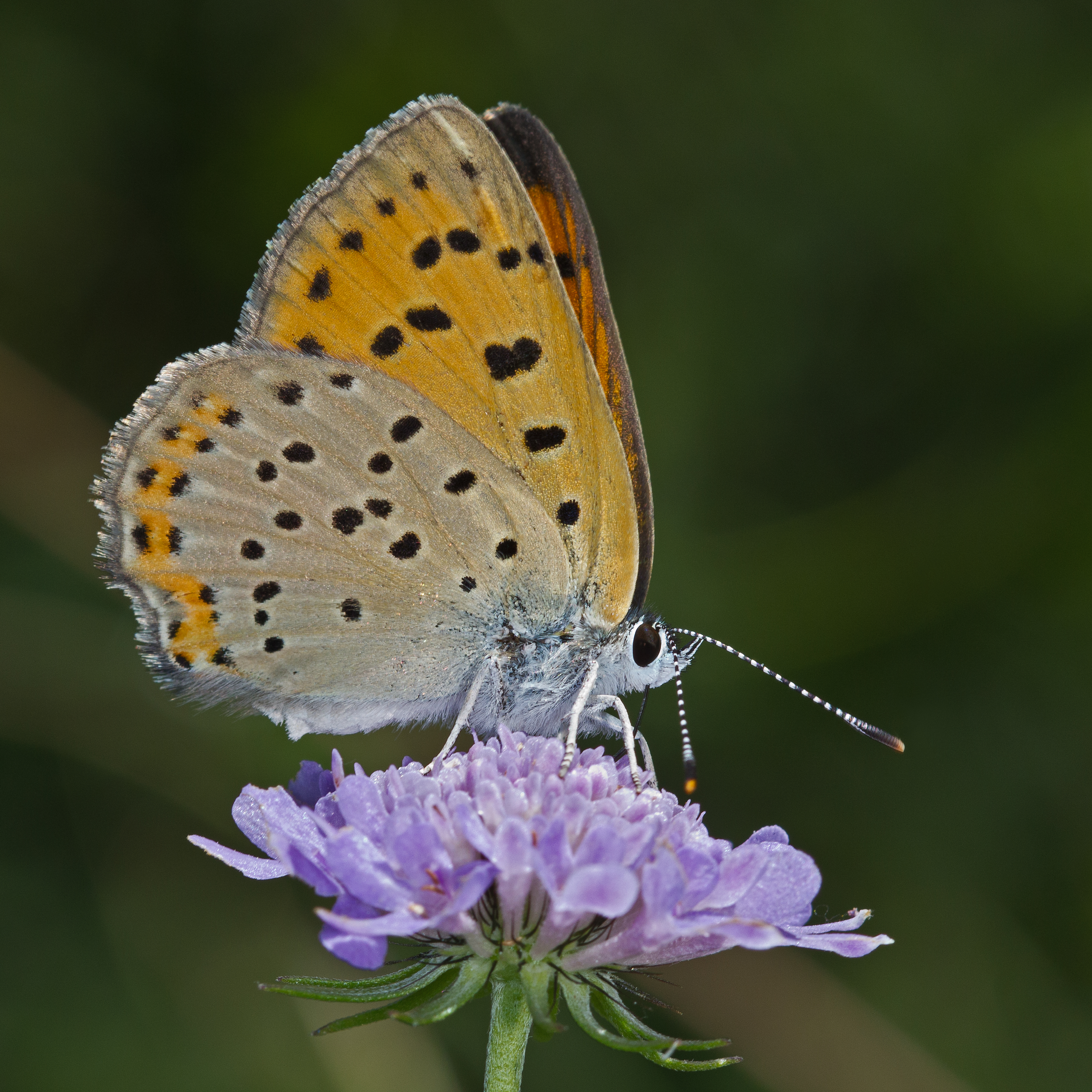 Purple-Shot Copper female gathering nectar of a scabious flower in an alpine meadow. Vercors, France.